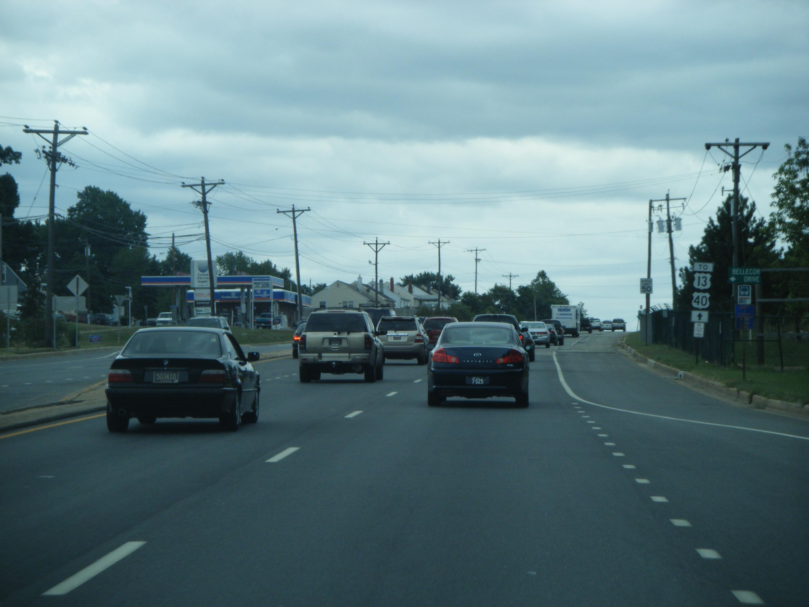 Southbound U.S. Route 202/Delaware Route 141 (Basin Road) past the intersection with Delaware Route 37 near New Castle, Delaware.